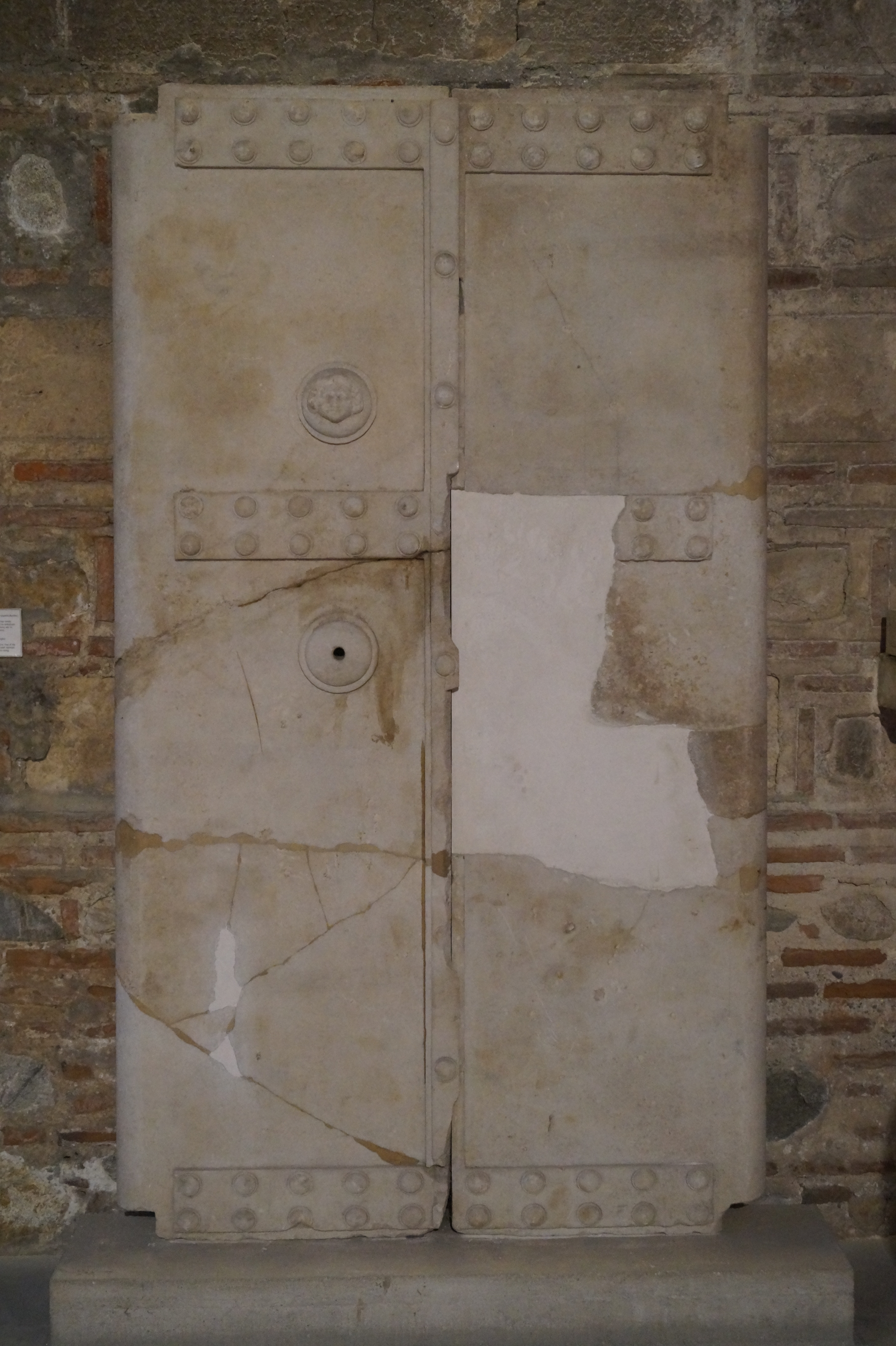 Serres, Makedonia, Greece: Archaeological Museum of Serres: Marble Door of Macedonian Tomb 1 in Sykia.